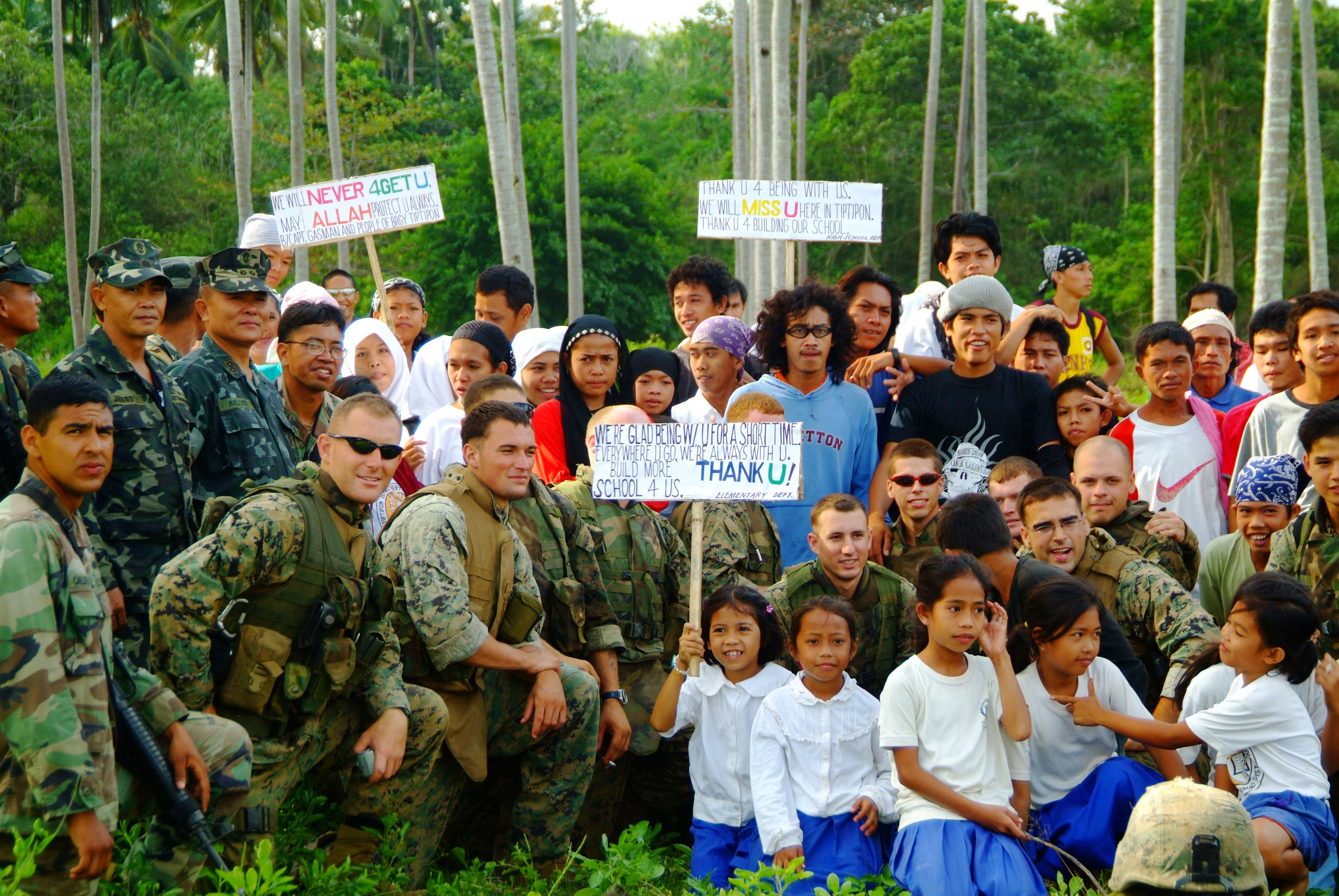 Jolo, Philippines (March 3, 2006) - Philippine Marines and villagers from the nearby town of Tiptipon pose with U.S. Marines and Sailors assigned to the 31st Marine Service Support Group (MSSG) before they depart the island for transit back to the amphibious dock landing ship USS Harpers Ferry (LSD 49). The joint efforts of more than 500 AFP and U.S. medical, dental, engineer and protection personnel were able to bring medical and dental support to more than 11,000 Filipino people and 504 animals, along with building four elementary schools. Harpers Ferry and Elements of the 31st Marine Expeditionary Unit (MEU) are participating in Balikatan 2006, an annual bilateral combined Republic of the Philippines and U.S. military exercise. U.S. Navy photo by Journalist 2nd Class Brian P. Biller (RELEASED)